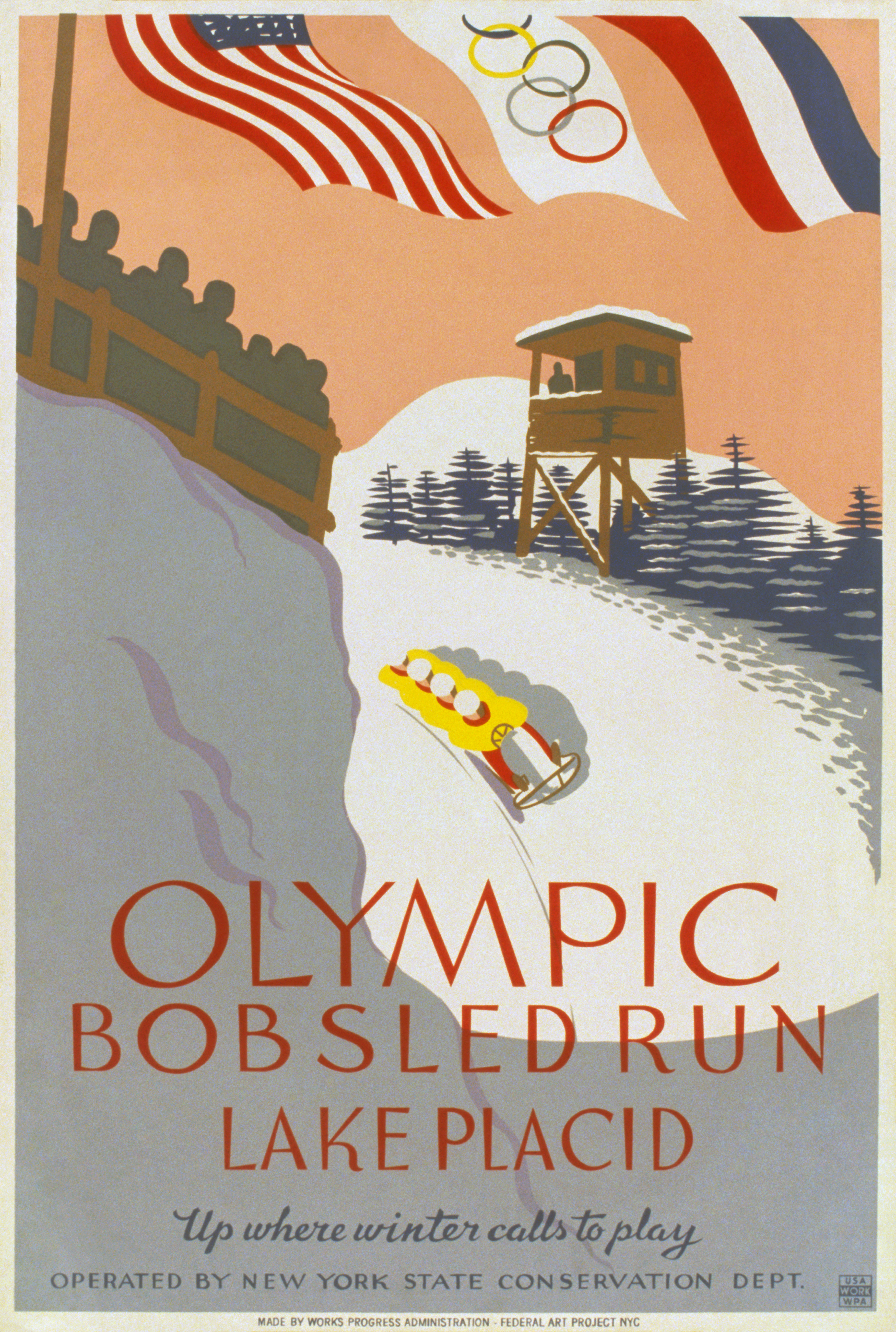 "Olympic bobsled run, Lake Placid Up where winter calls to play." Poster promoting winter sports, showing four man bobsledding on bobsled run.